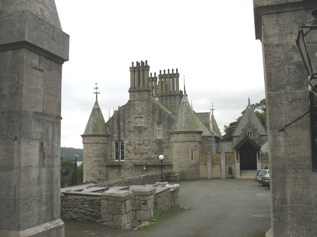 Grand Entrance to Plas Rhianfa